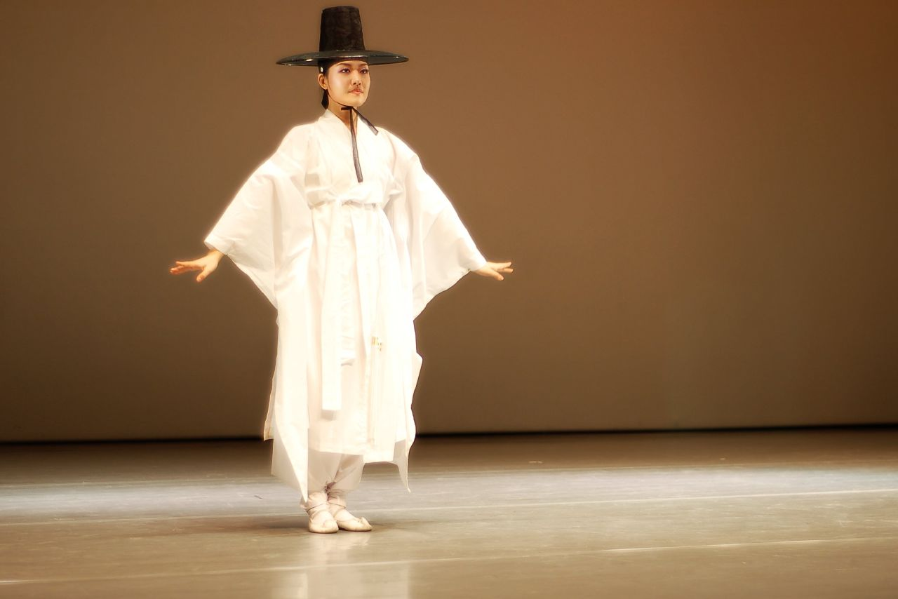 Hanryang chum, traditional Korean dance.